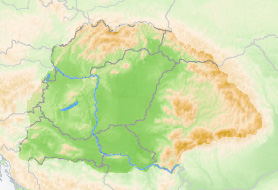 Topographic map of Carpathian Basin - created on the basis of Image:Europe topography map.png